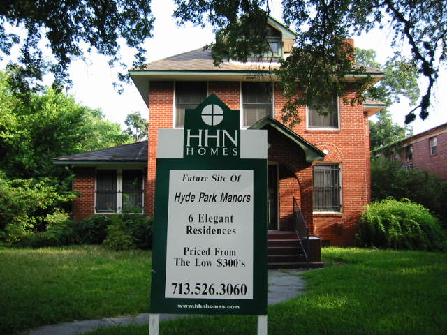 A former house located at 1515 Waugh Drive in the Montrose district of Houston. The real estate sign (c. September 2001) is a reminder that gentrification efforts have built inroads where older buildings other than homes are torn down and replaced with trendier architecture. The land value in Montrose has been rising to which older homes dating back to the 1920s are endangered.